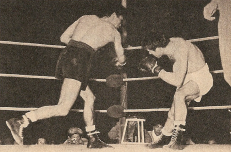 Pascual Perez (a. Pascualito), Argentine boxer. Flyweight Champion of the World (1954-1960), and Olympic Gold Medal at 1948 Summer Games (London).